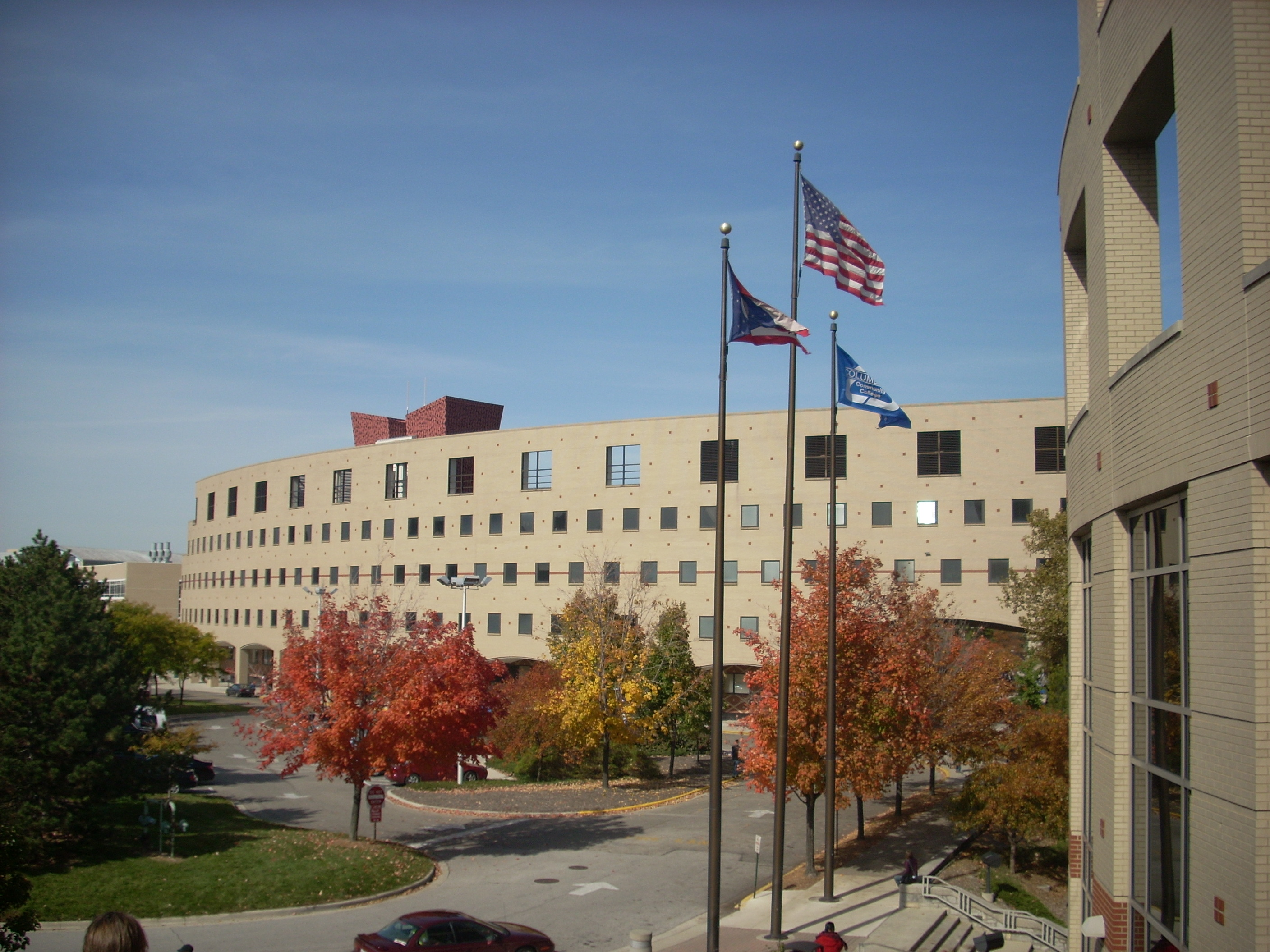 Columbus State Community College in Columbus, Ohio as seen from the balcony of Davidson Hall.